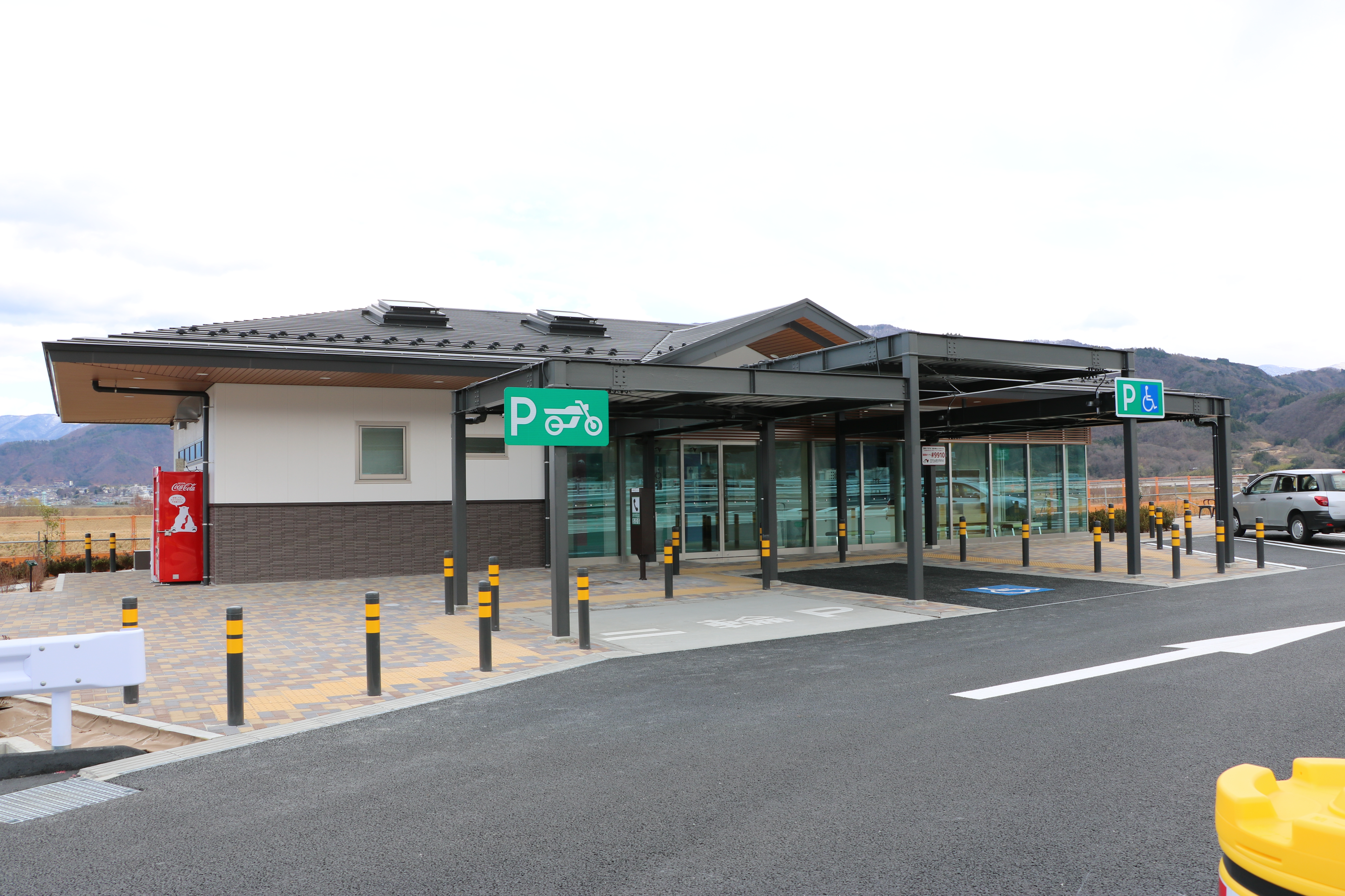 Chubu Odan Expressway Masuho Parking Area Shimizu direction.